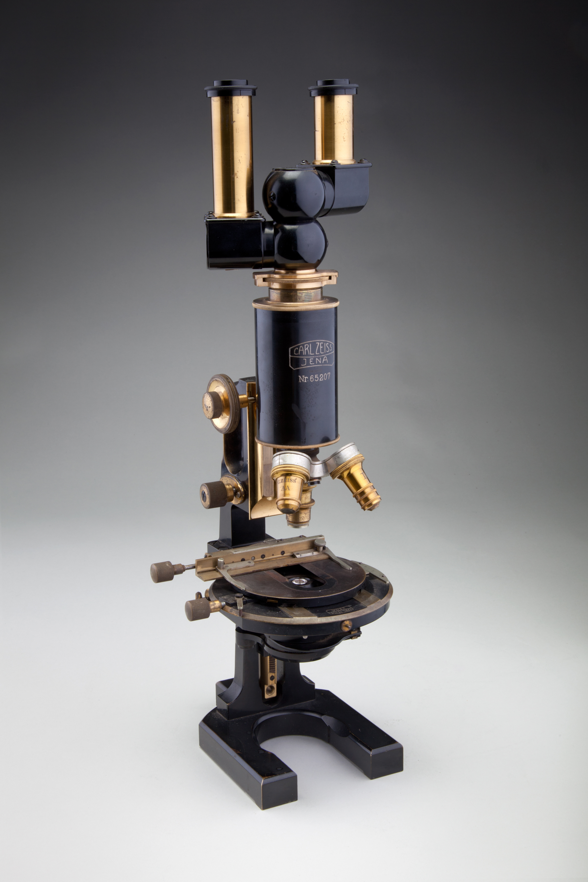 Binocular compound microscope from 1914; Carl Zeiss (1816–88), Jena, Germany; materials: brass, metal, glass; owner: The Golub Collection, University of California, Berkeley. Image Credit: SFO Museum, San Francisco Images donated as part of a GLAM collaboration with Carl Zeiss Microscopy - please contact Andy Mabbett for details.